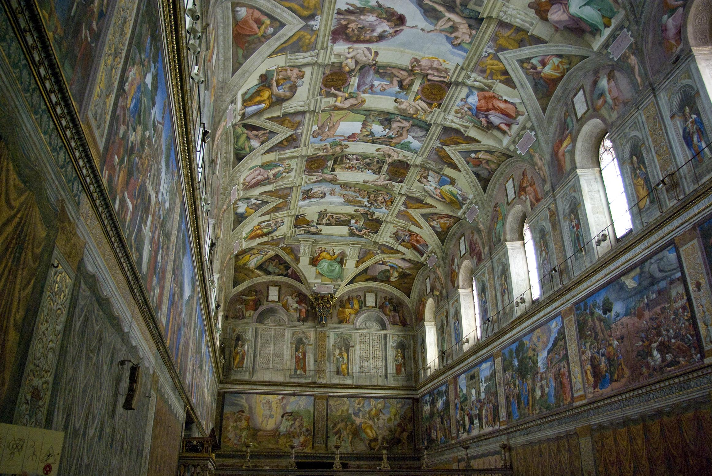 The Sistine Chapel